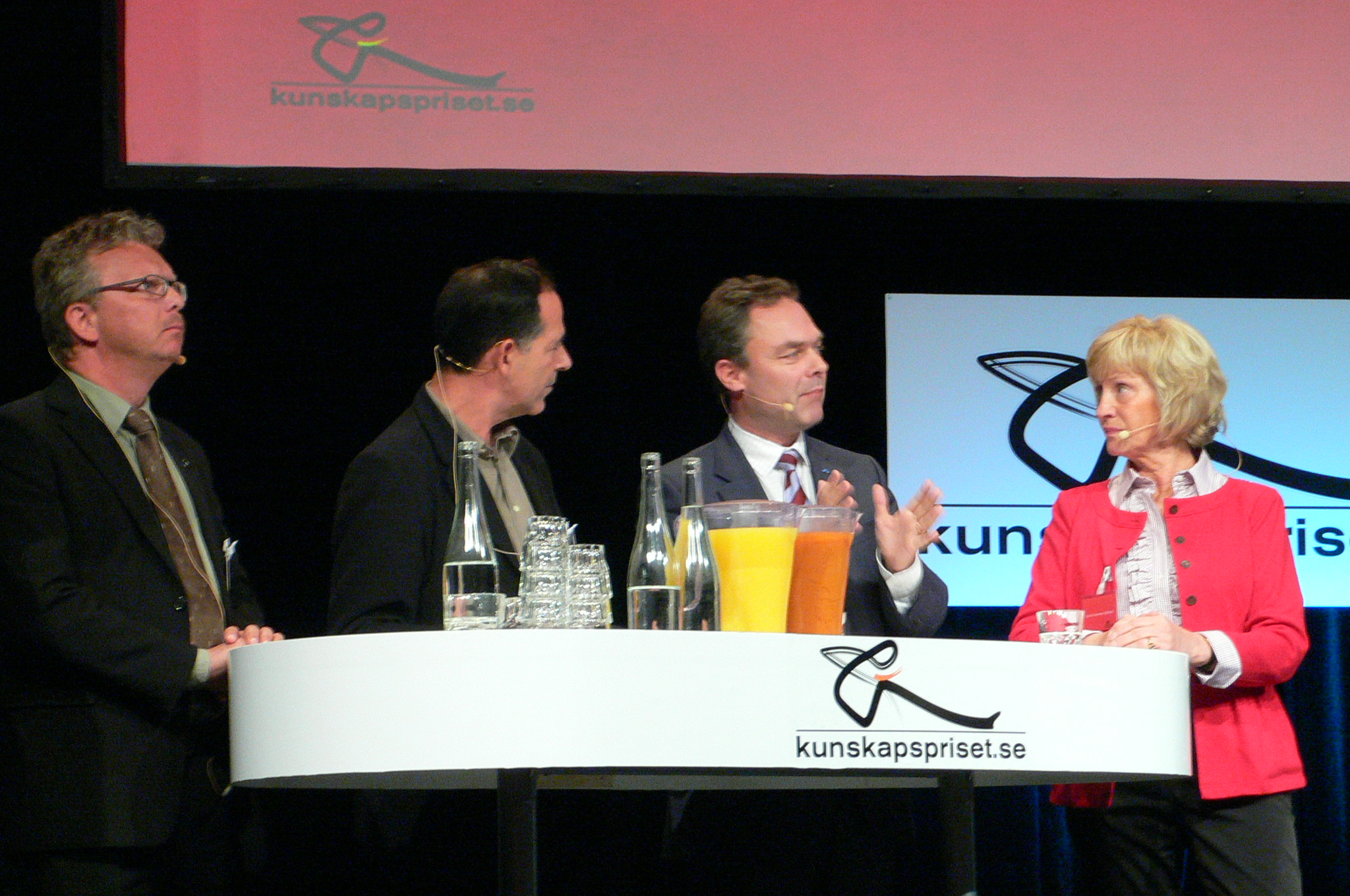 A panel discussion on Kunskapens dag, 2008-09-07, in Stockholm.